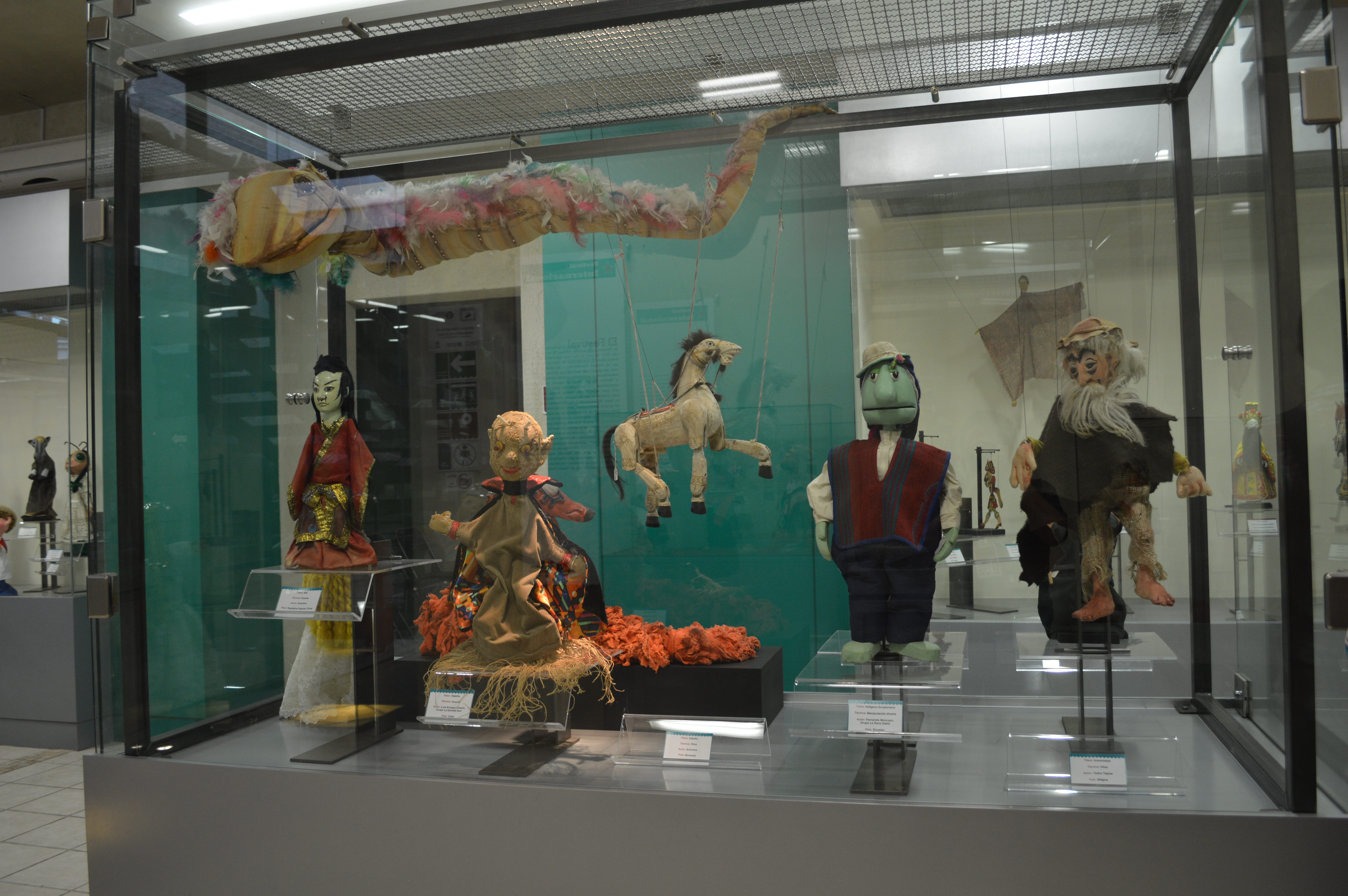 Puppets from various countries donated to the National Puppet Museum as part of the International Puppet Festival in Huamantla, Tlaxcala, Mexico